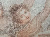 Detail of original engraving "The Hours" by Francesco Bartolozzi showing gossamer wings on a nymph